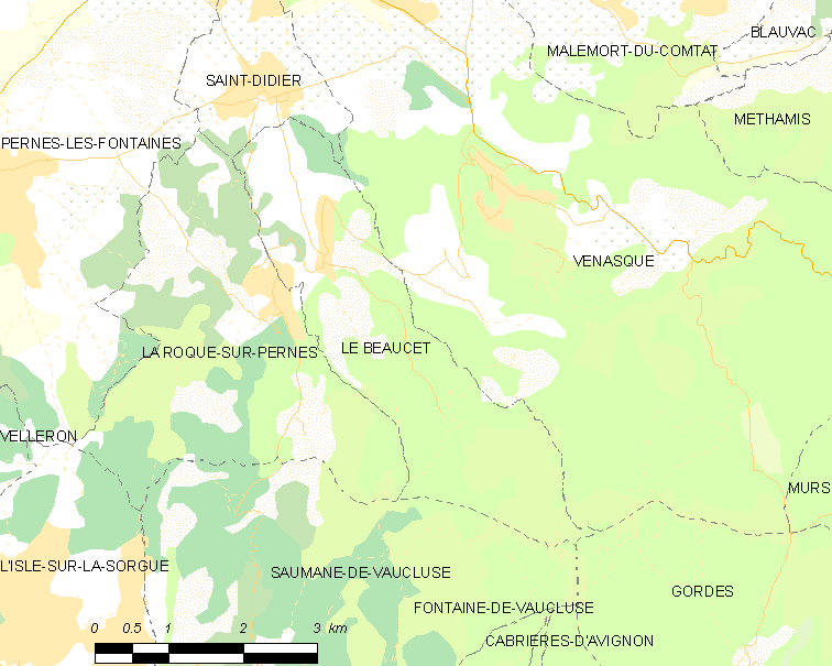 Map of French municipality Le Beaucet